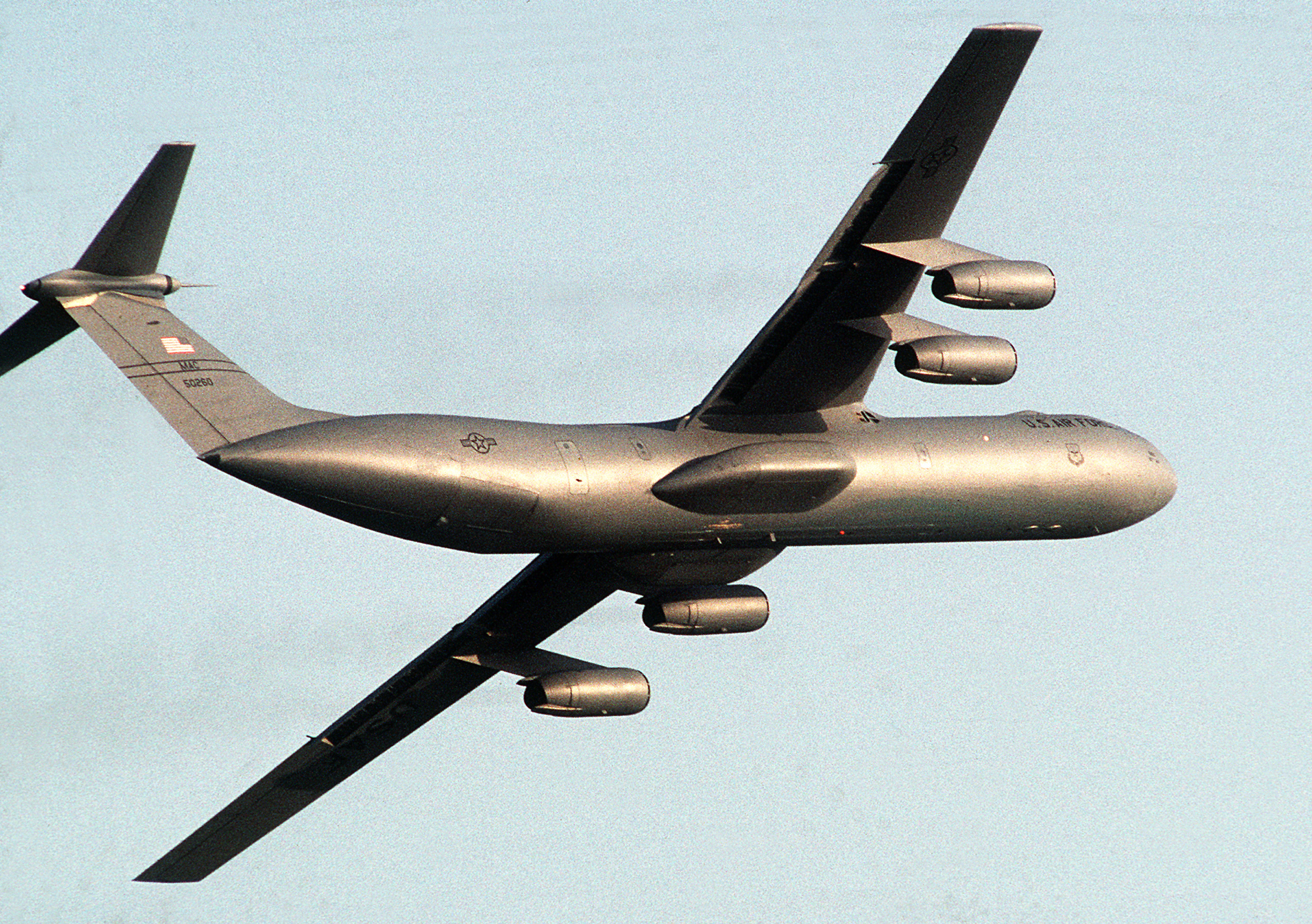 A 7th Airlift Squadron (7th AS) C-141B Starlifter aircraft flies over the base.